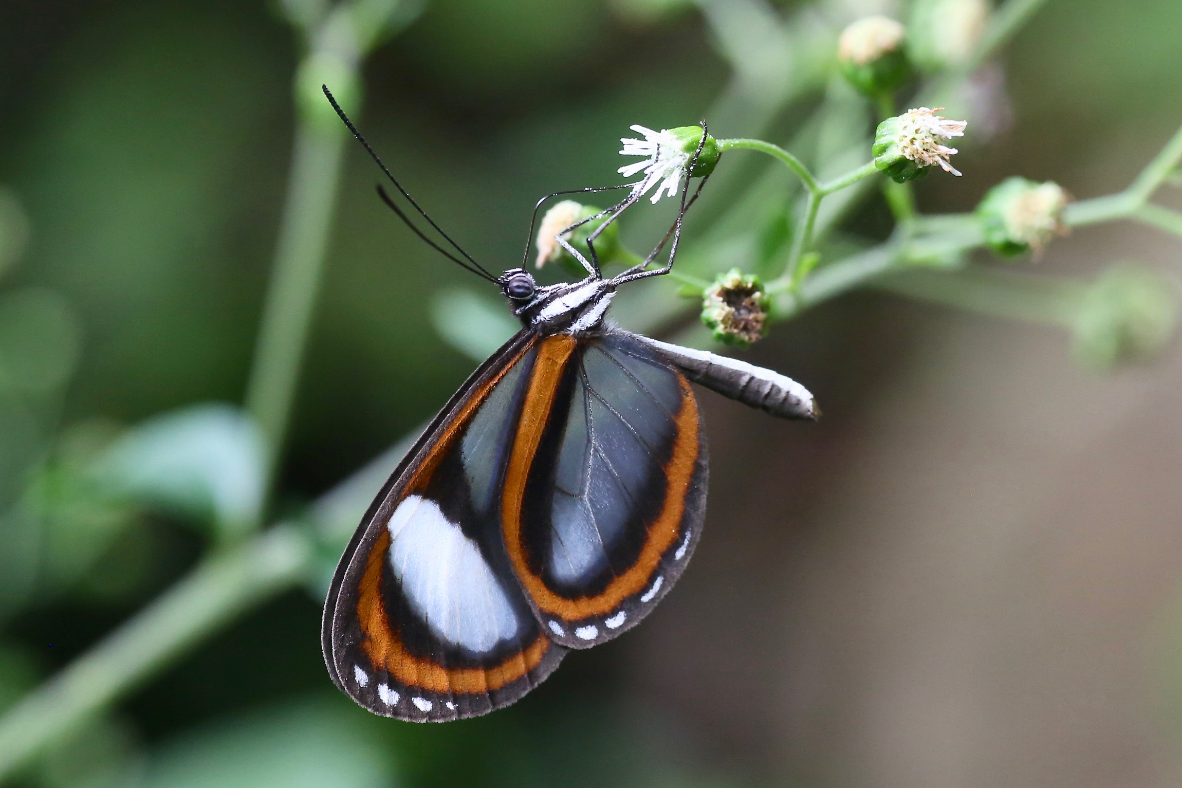 Ecuador, Pastaza Province, Mera, Río Alpayacu.